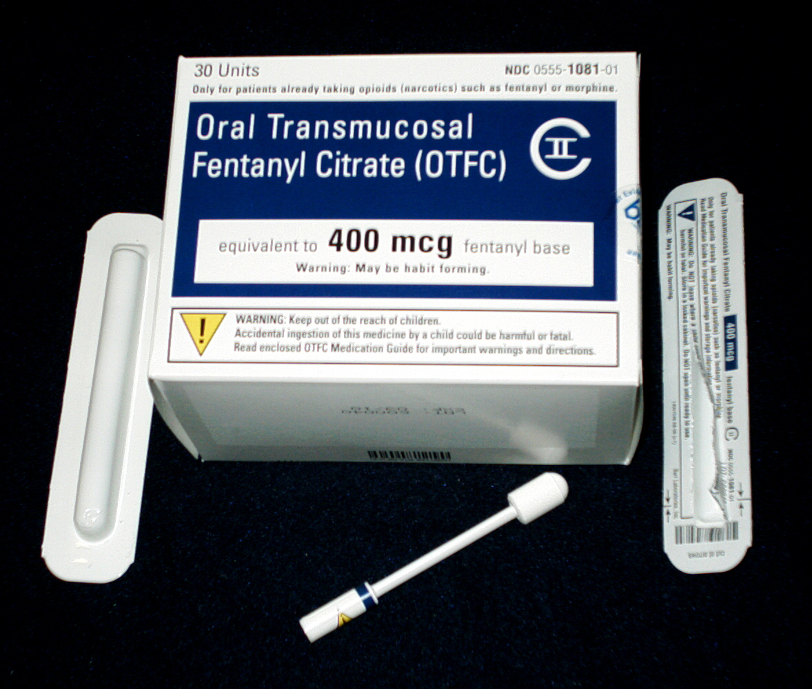 Package and example of fentanyl lollipop (brand: Actiq), 400 micrograms.